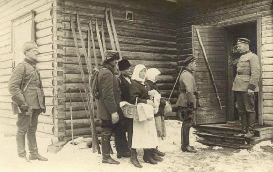 A patrol from Tonteri station of Finnish Border Guard arrives with some arrested persons during 1920s